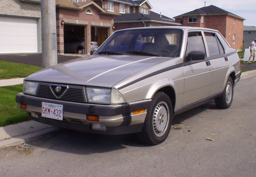 1988 Alfa Romeo Milano Gold (North American market Alfa 75)